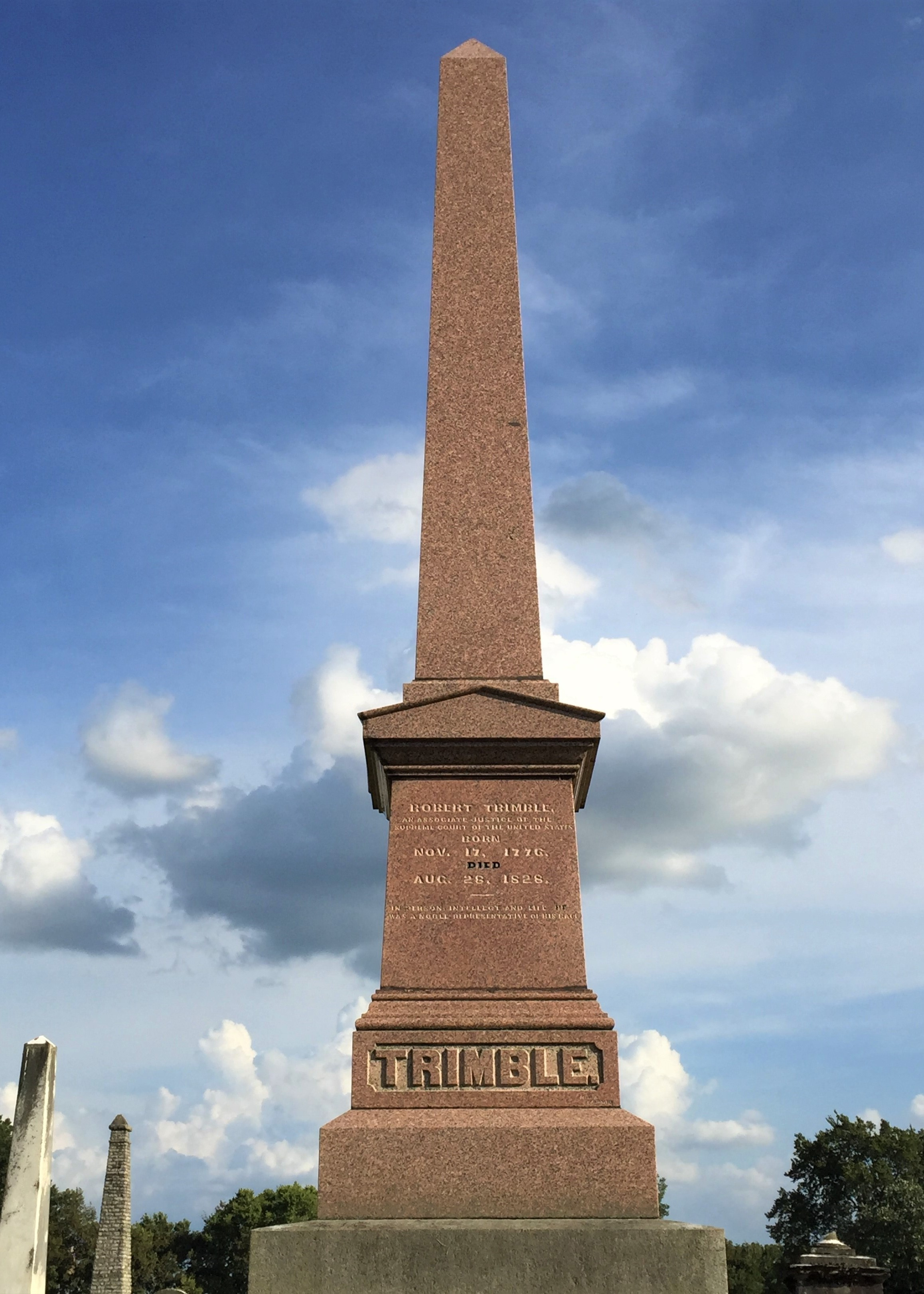 Gravesite of Associate Justice of the United States Supreme Court Robert Trimble, Section L, Paris Cemetery, Paris, Kentucky